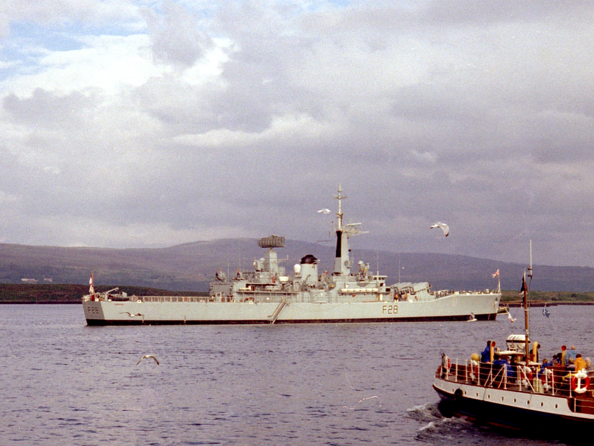 The Royal Navy Leander-class frigate HMS Cleopatra (F28) in Tobermory Harbour, Mull, Scotland (UK), in 1978.